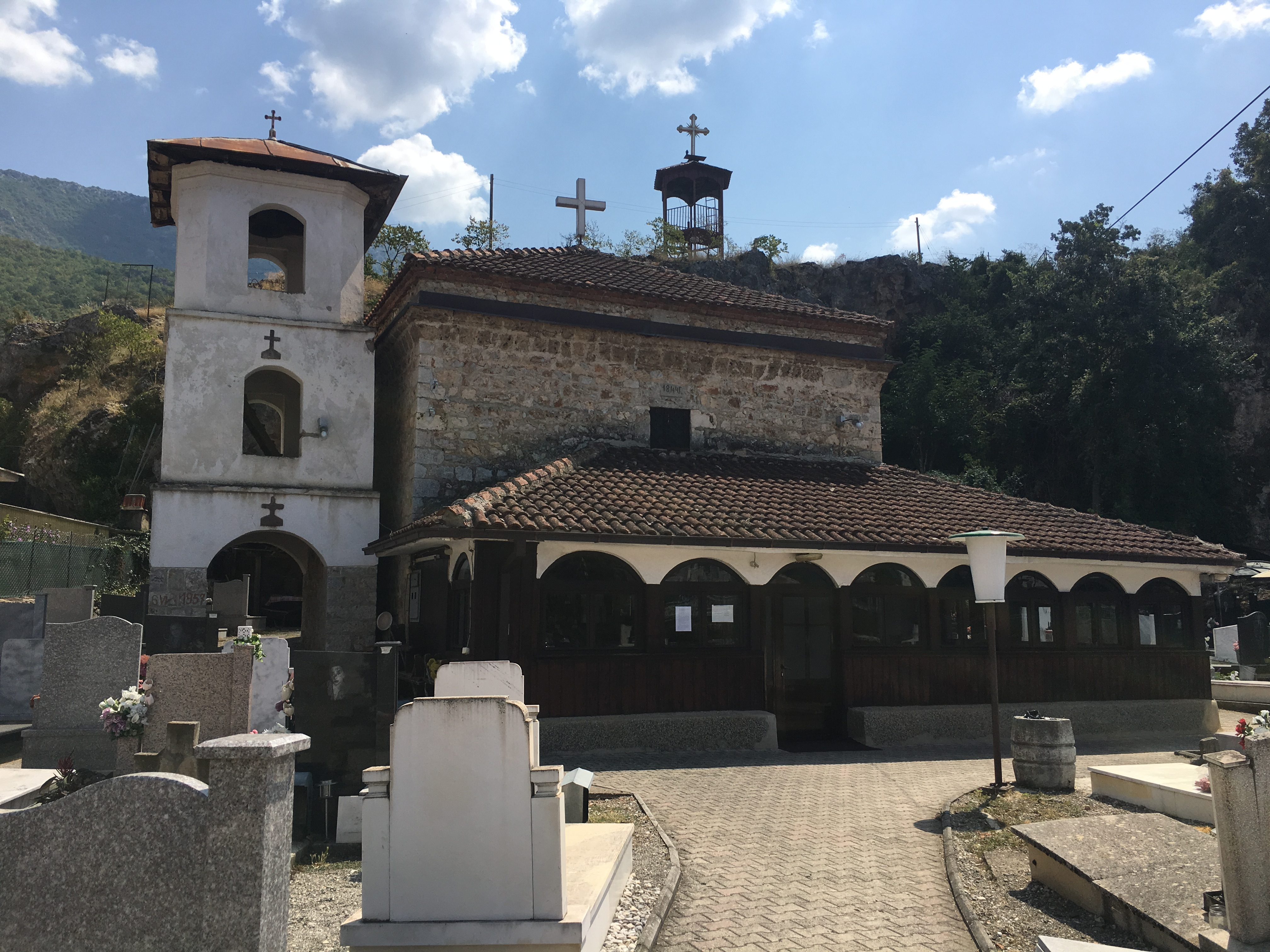 Ss. Cosmas and Damian Church in the village of Peštani